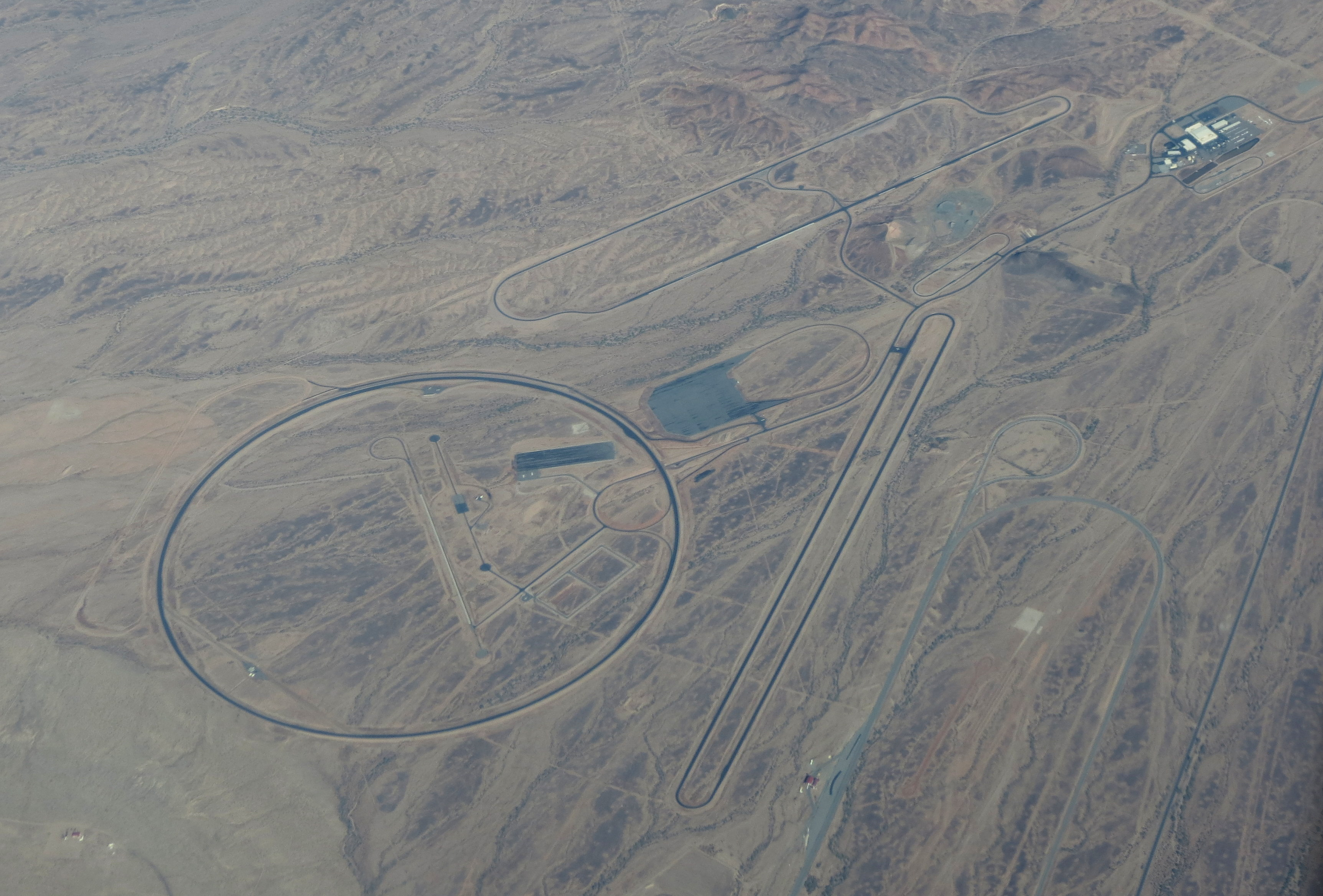 General Motors Desert Proving Ground in Yuma County, Arizona as seen from a Delta Air Lines flight from Atlanta to San Diego